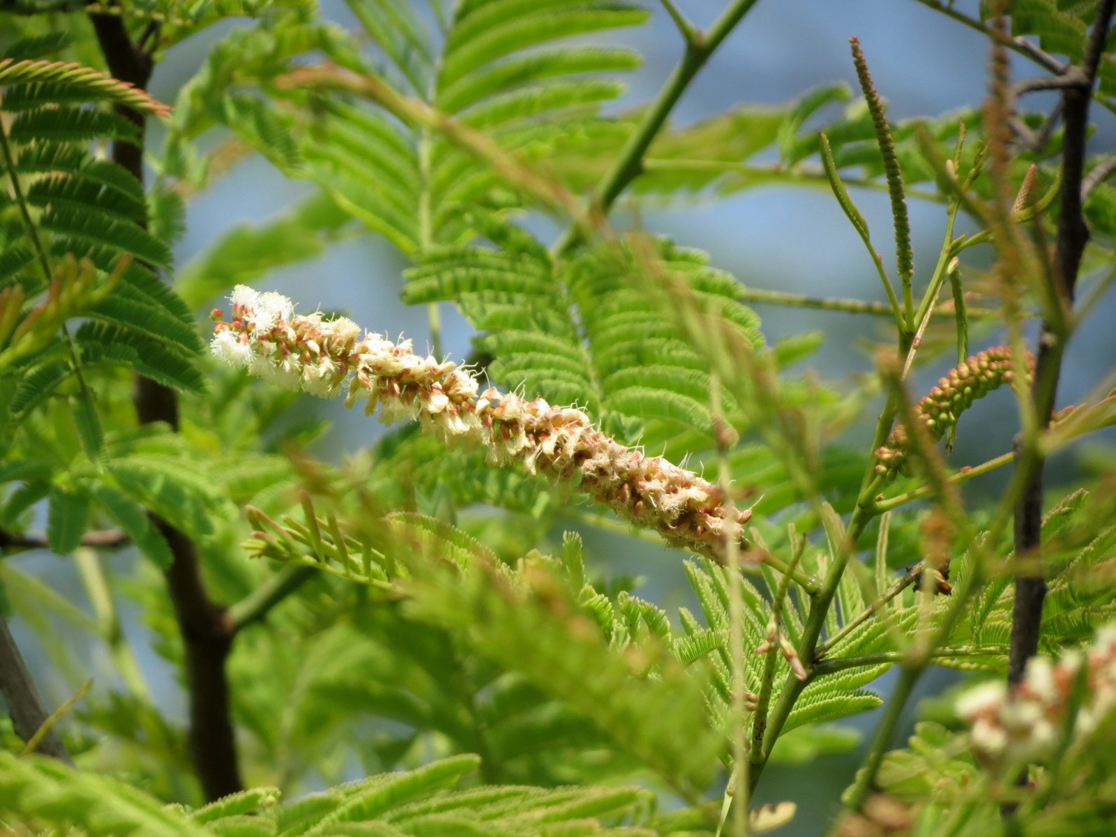 Acacia ferruginea in Valley school bangalore on 01-Jun-2014